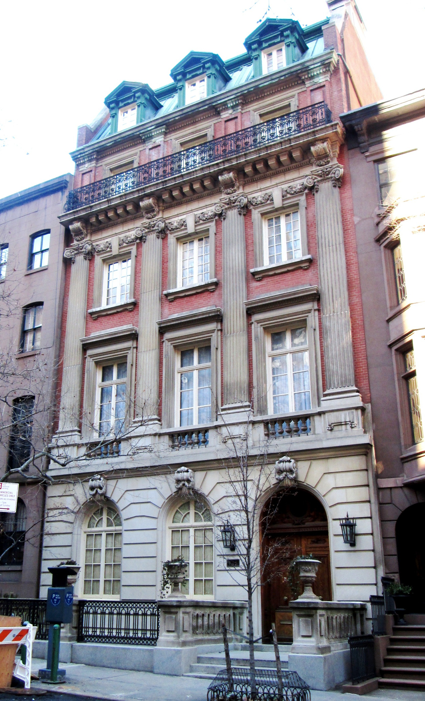 The James F. D. and Harriet Lanier House at 123 East 35th Street between Park and Lexington Avenues in the Murray Hill neighborhood of Manhattan, New York City was built in 1901-03 and was designed by Hoppin & Koen in the Beaux-Arts style. It was designated a New York City landmark in 1979. (Source: Guide to NYC Landmarks (4th ed.))